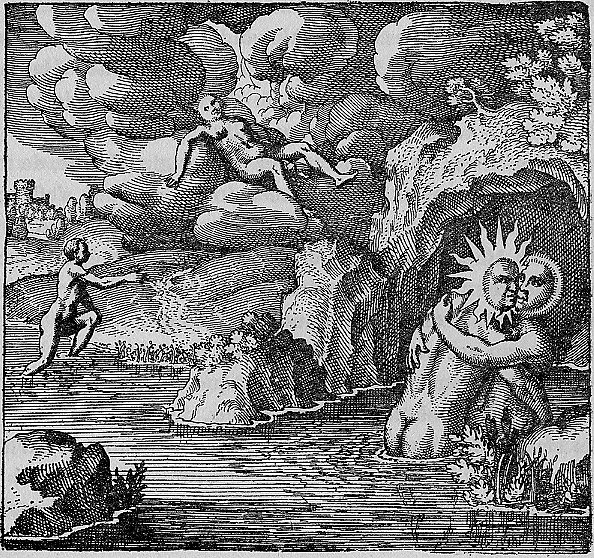 Emblem 34 (The Marriage of Heaven and Earth)